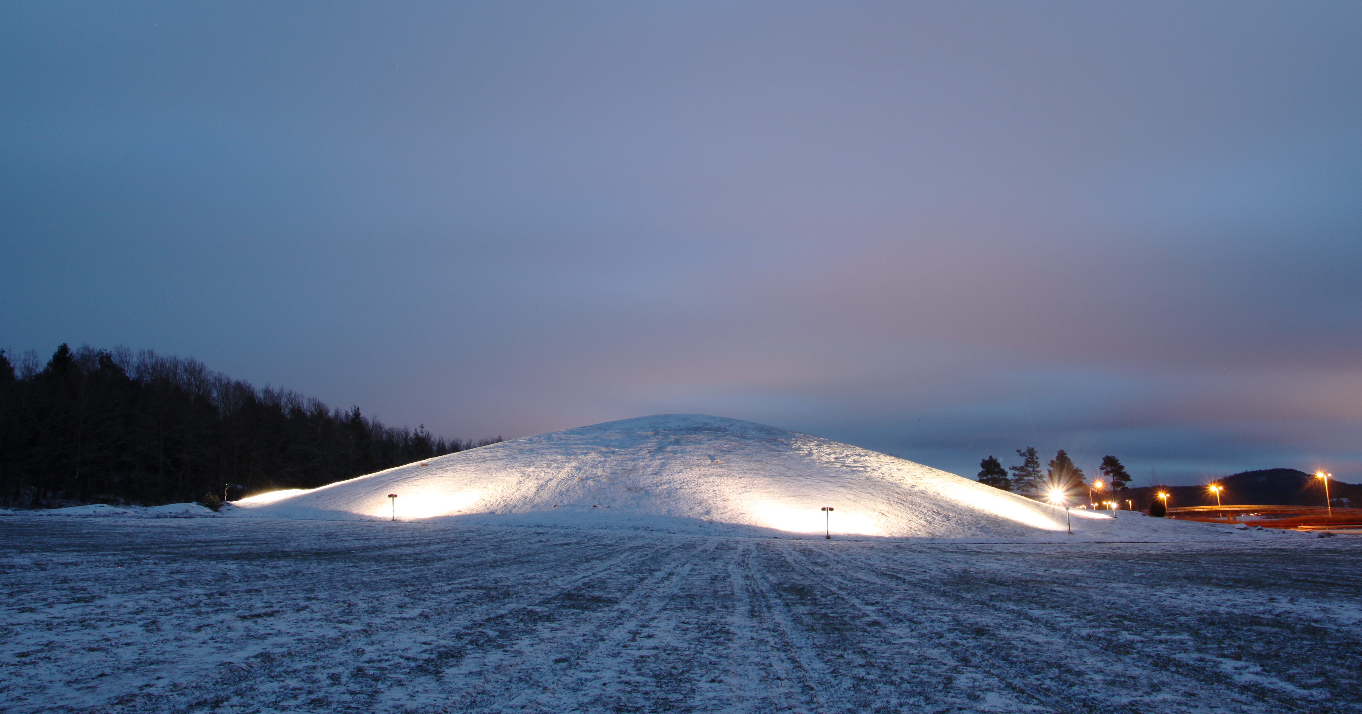 The Jell Mound (NO: Jellhaugen) near Halden in Norway.